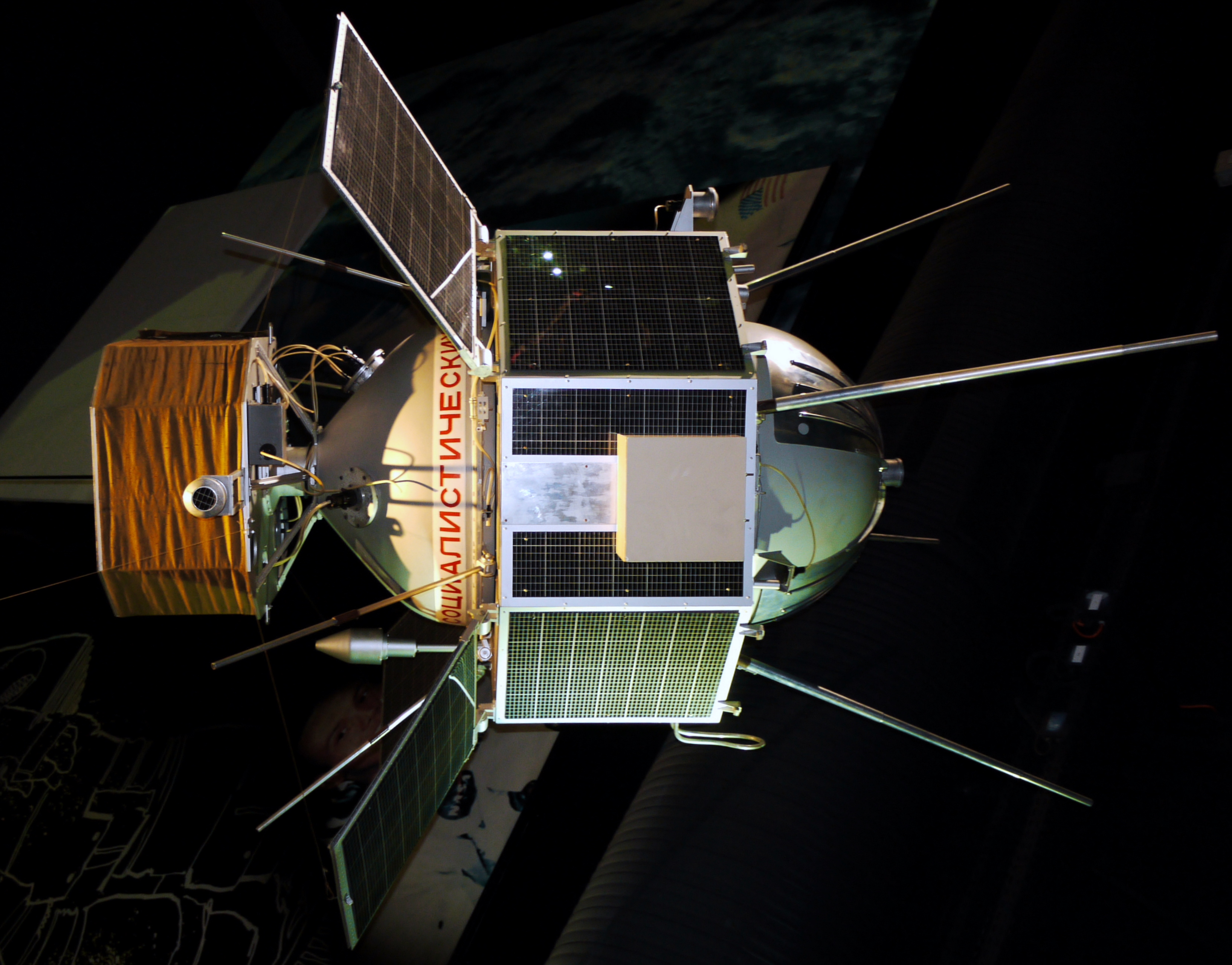 Mockup of the french-russian earth observation satellite Aureol 1 (1971) , Museum of Air and Space Paris, Le Bourget (France)